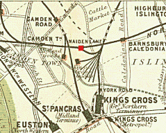 Map showing Maiden Lane station in 1899